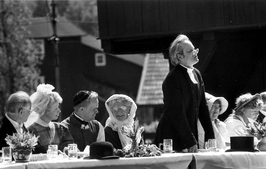 Lars Jacob (standing) and cast of Ett bondbröllop (Farmer's Wedding), as released by Lars Jacob ProdPlace: Marnäs gård (Gammelgården), Nils Nils gata 7, Ludvika, Sweden